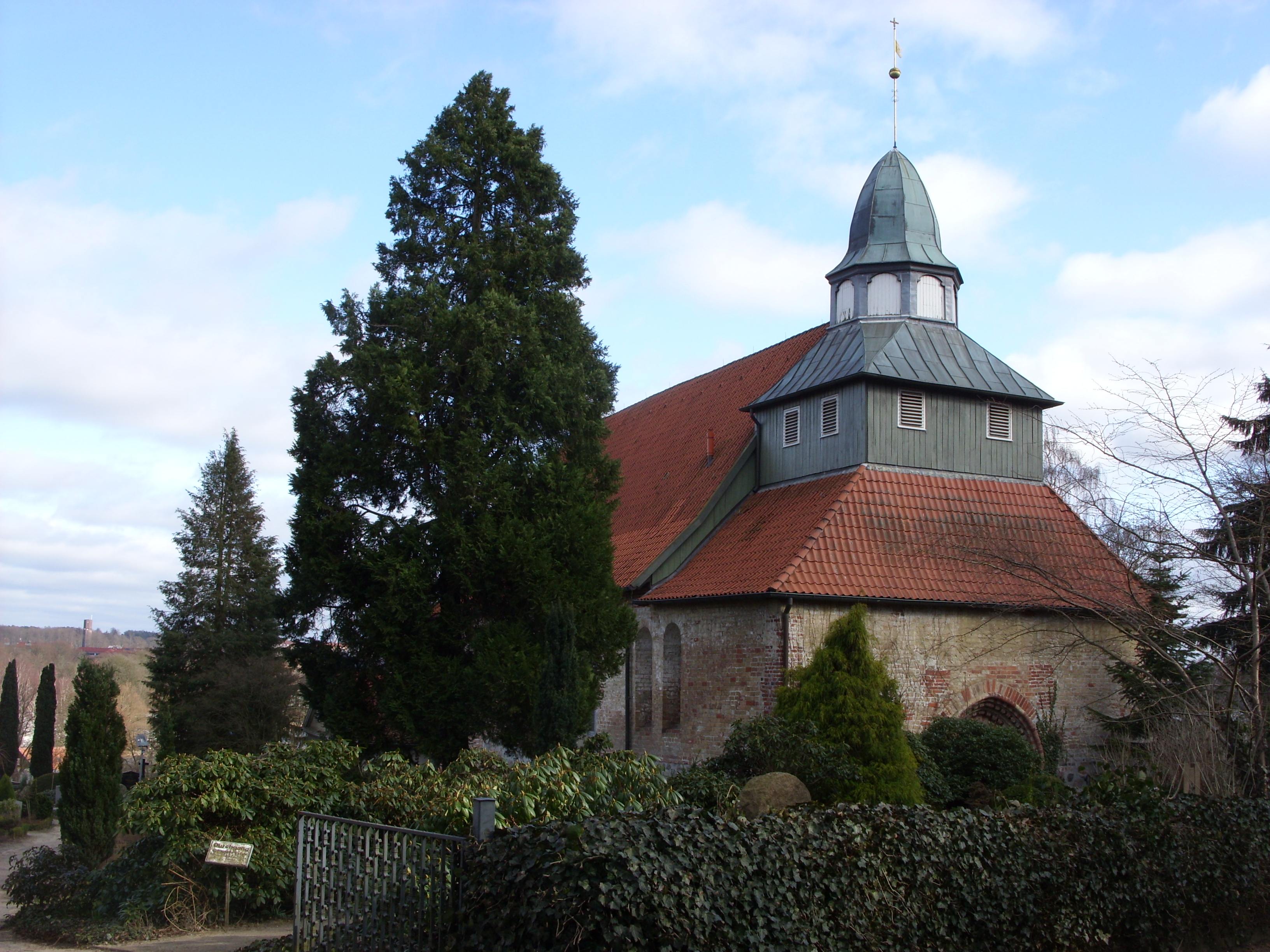 Church St. Georg auf dem Berge, Ratzeburg, Germany